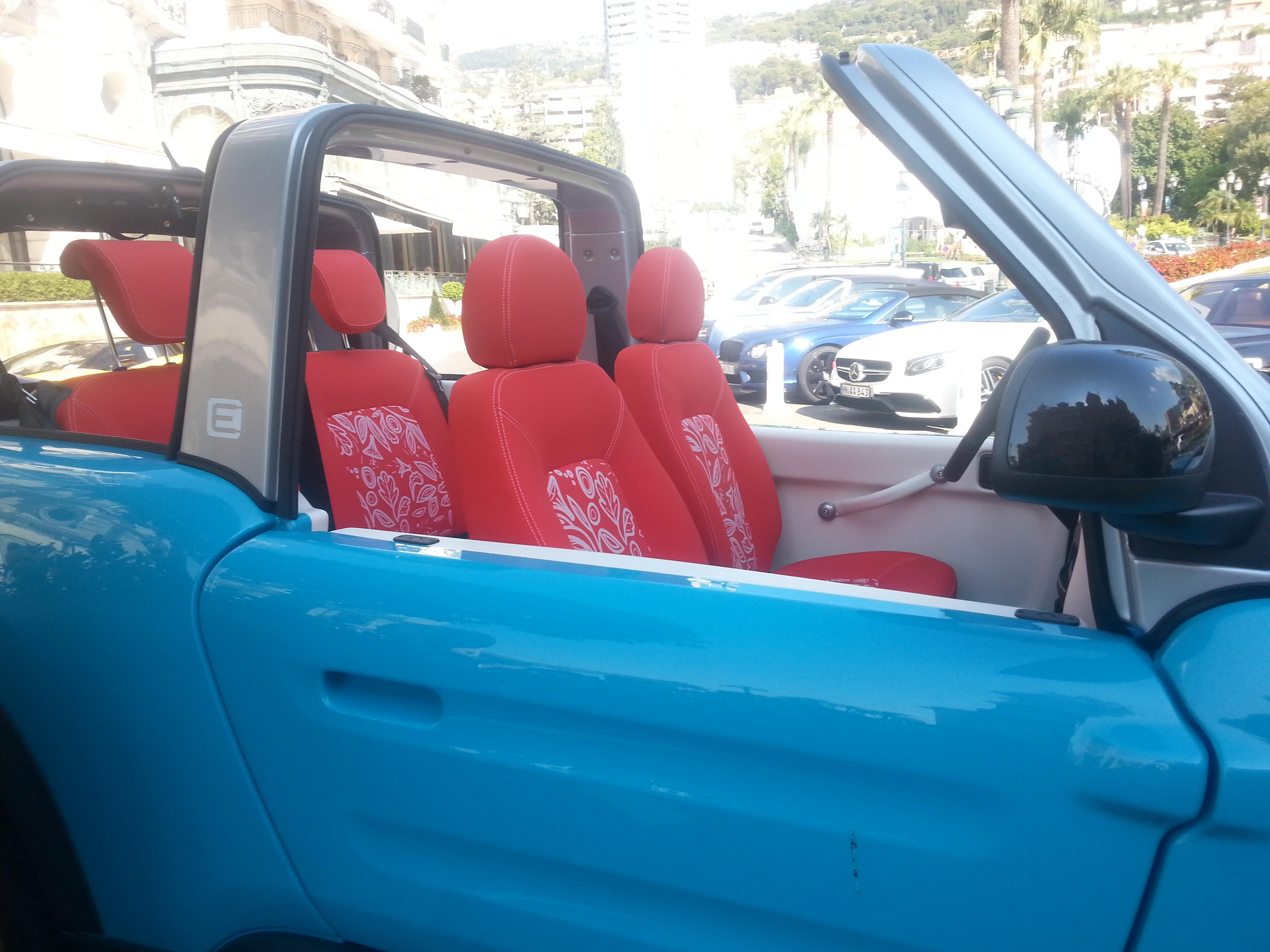 Citroën automobile. Place du Casino, Monte Carlo